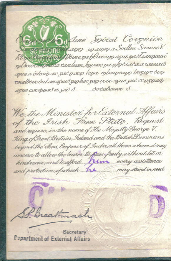 'Request' page of Irish Free State passport issued 11 Jan 1936 signed by Secretary Department of External Affairs.